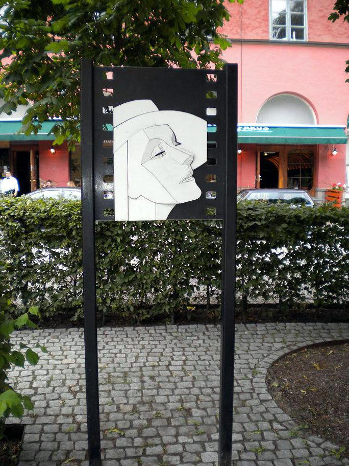 City of Stockholm’s monument to Greta Garbo at Greta Garbo Place Greta Garbos torg along Katarina bangata (street) east of Götgatan on the Southern Isle (Södermalm)Place: Stockholm, Sweden